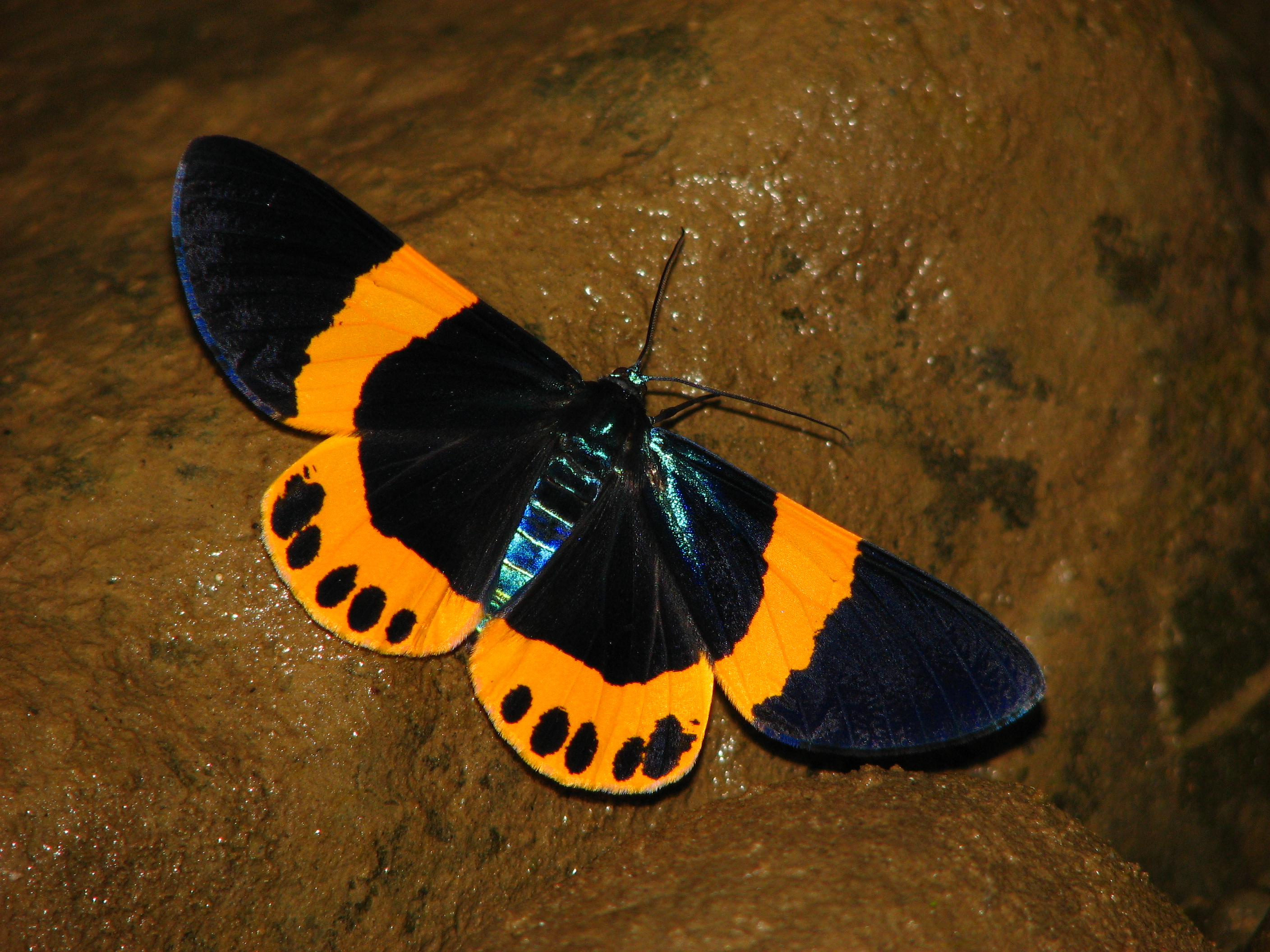 Milionia basalis at Namdapha Tiger Reserve, Arunachal Pradesh, India